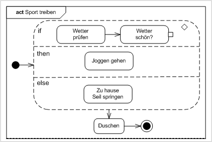 Activity diagram